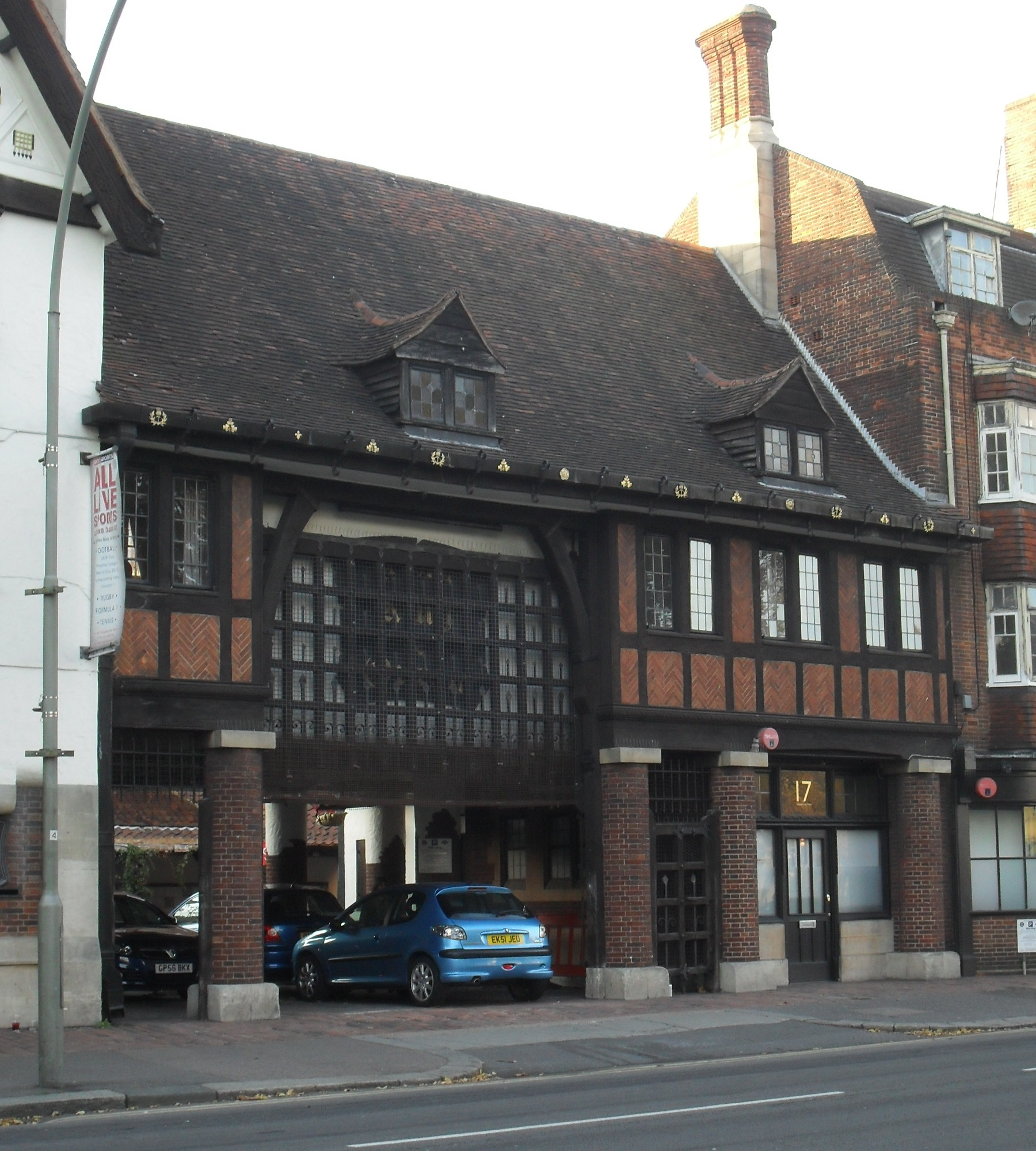 The King and Queen, Marlborough Place, Brighton, City of Brighton and Hove, England. An 18th-century pub rebuilt in extravagant Mock Tudor style by local architects Clayton & Black in the early 1930s. This picture shows the single-storey north wing, added by the same architects in 1935–36. Listed at Grade II by English Heritage (NHLE Code 1381770)